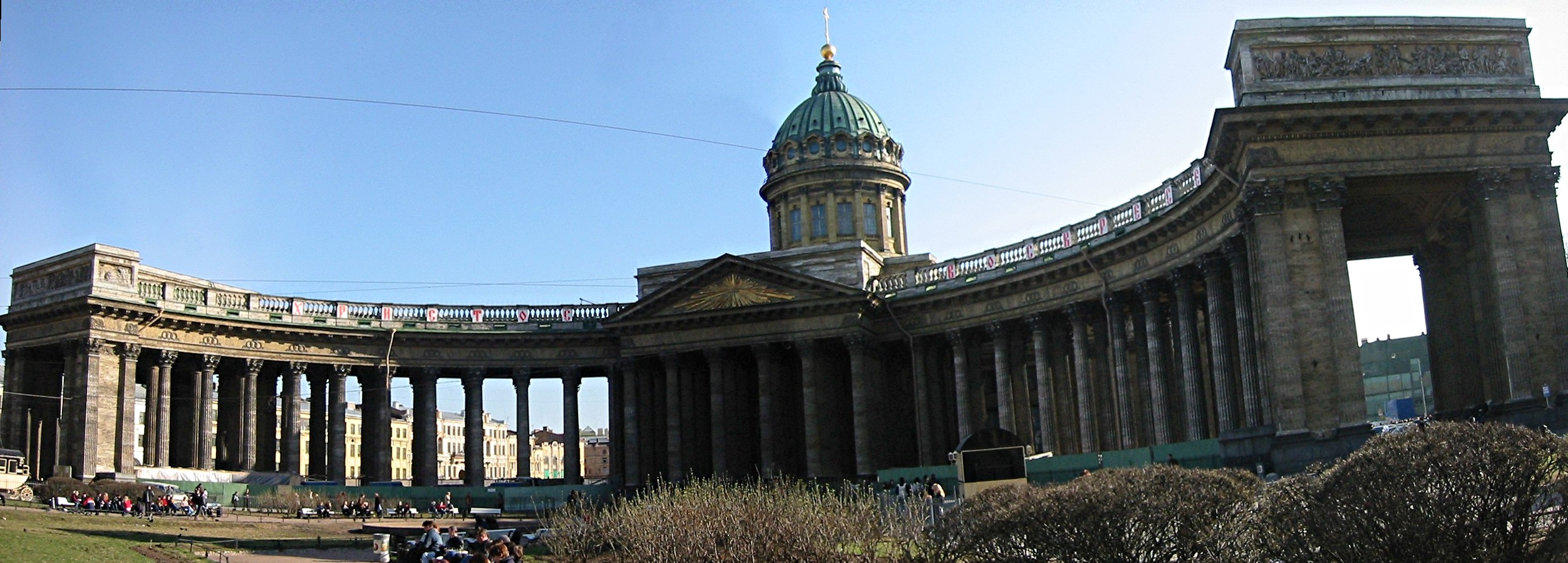 kazan cathedral